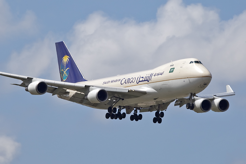 Schiphol